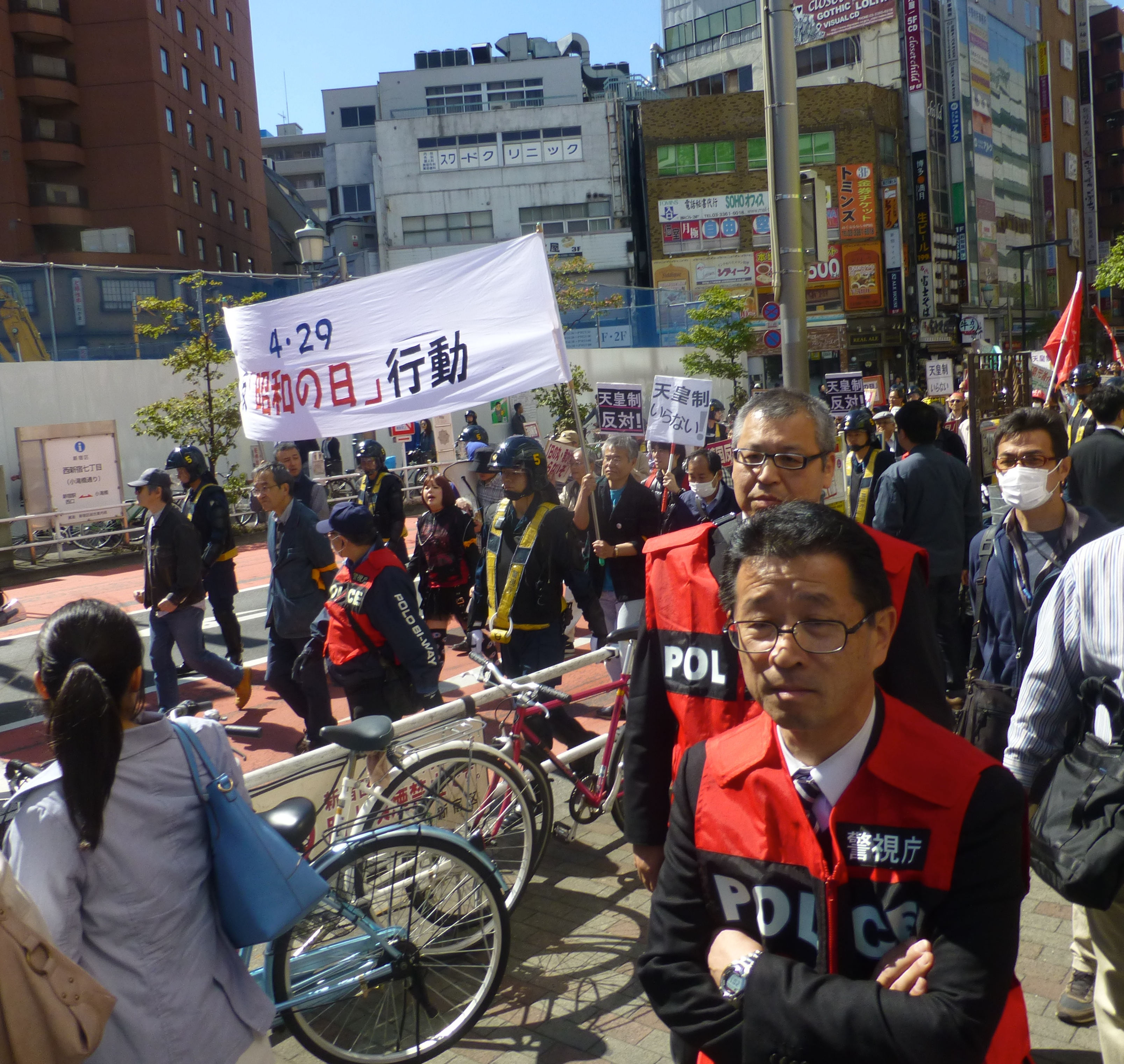 反昭和の日の人々のデモ、新宿にて (Anti Showa Day people protesting in Shinjuku)